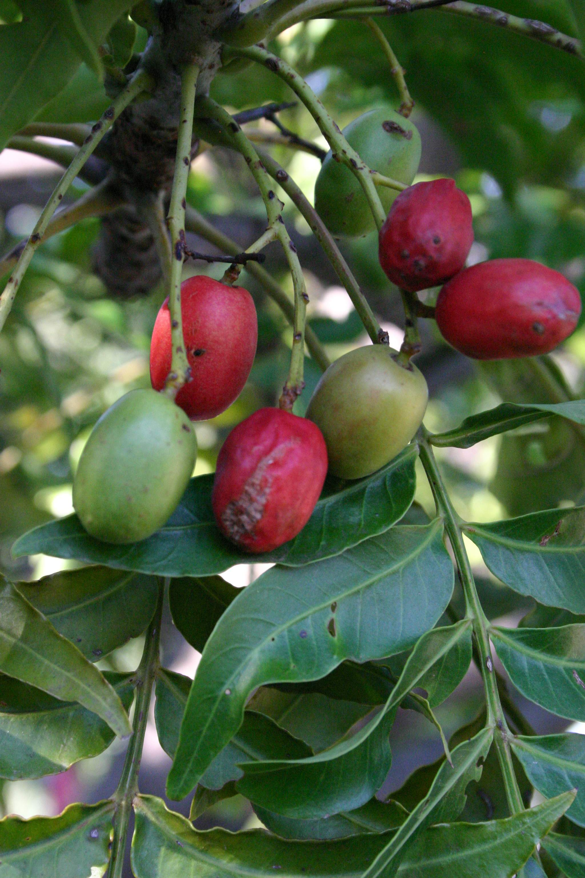 Fruit & foliage of Harpephyllum caffrum Bernh. (Anacardiaceae), cultivated tree in Magaliesberg, South Africa